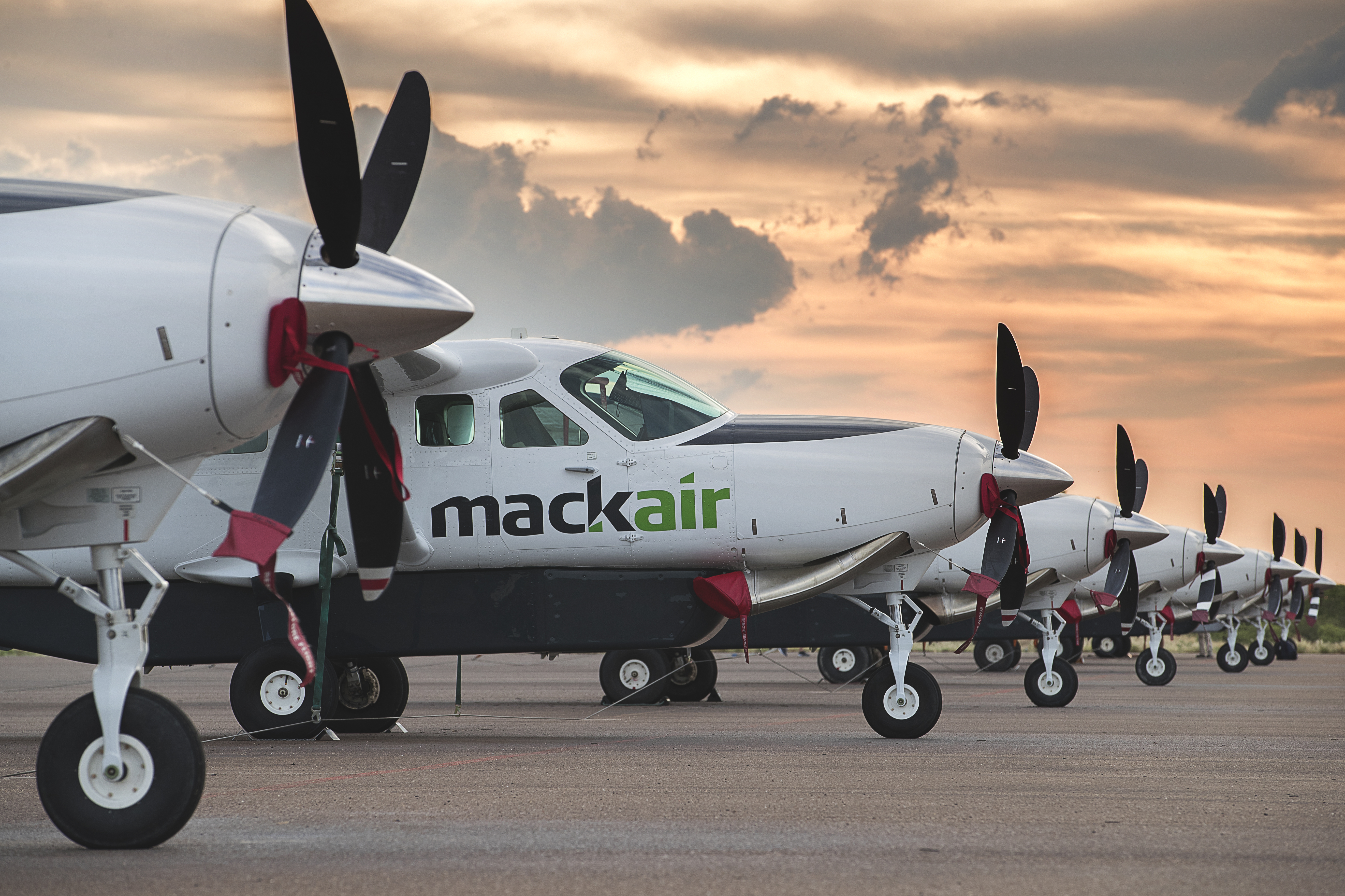 Mack Air aircraft lined up in Maun, Botswana